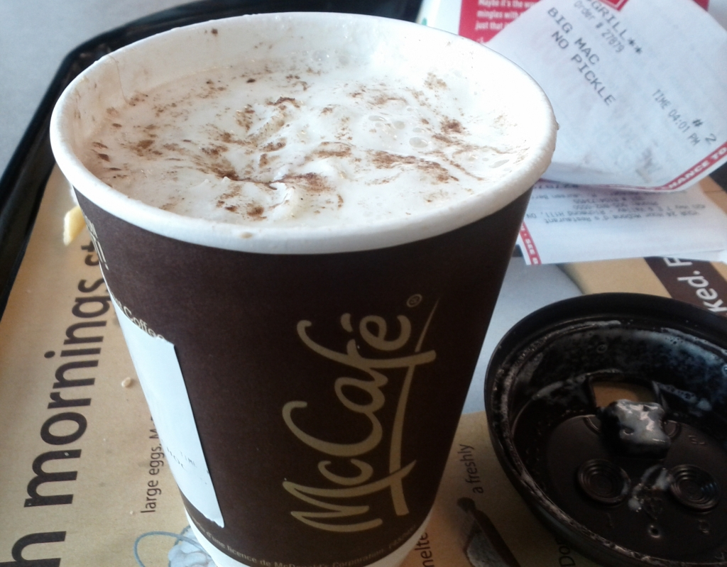 A photo of the newly launched hot chocolate product at a McDonald's in Canada sold under the McCafé brand.